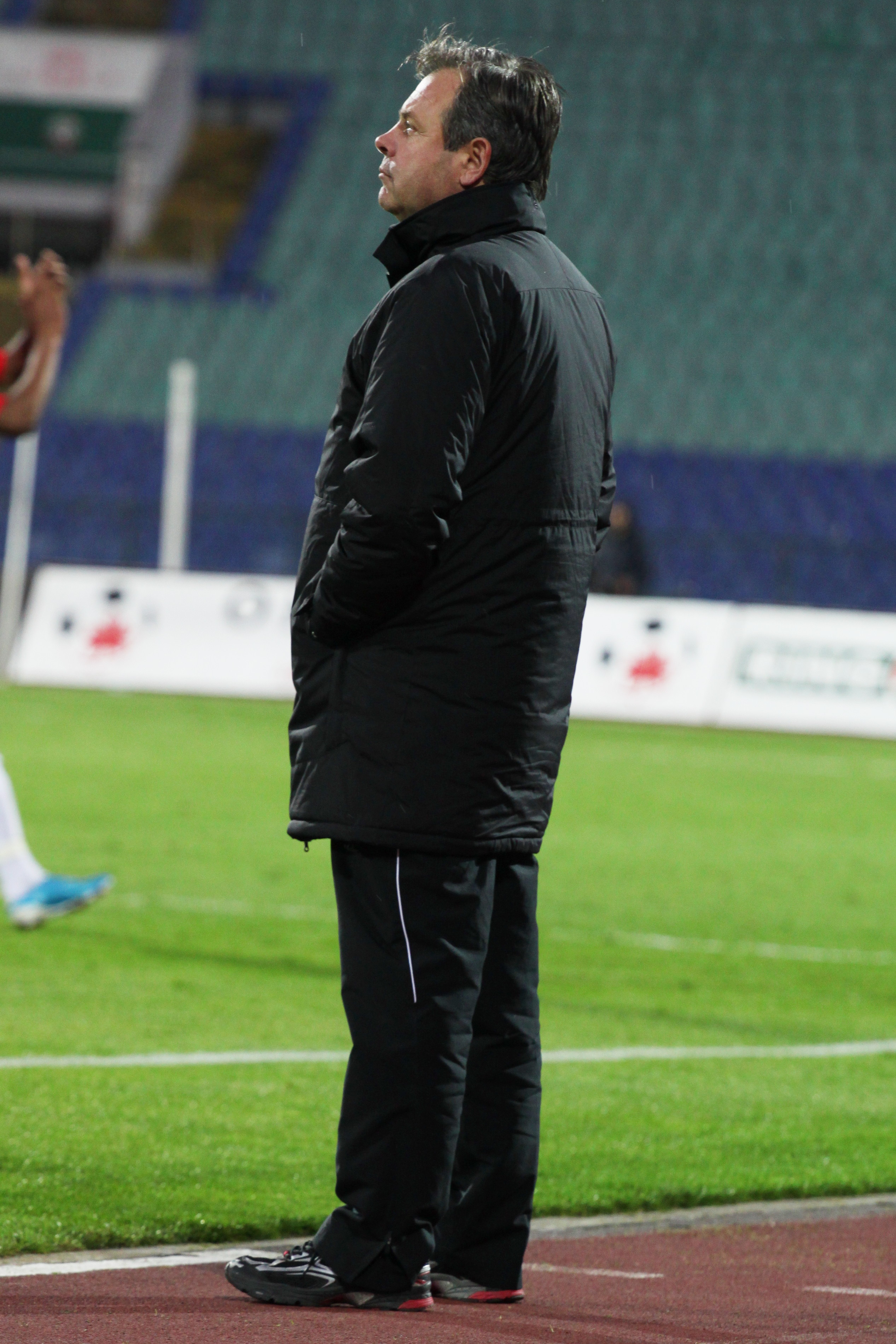 Stefan Genov - bulgarian soccer manager, he head PFK Cherno more Varna